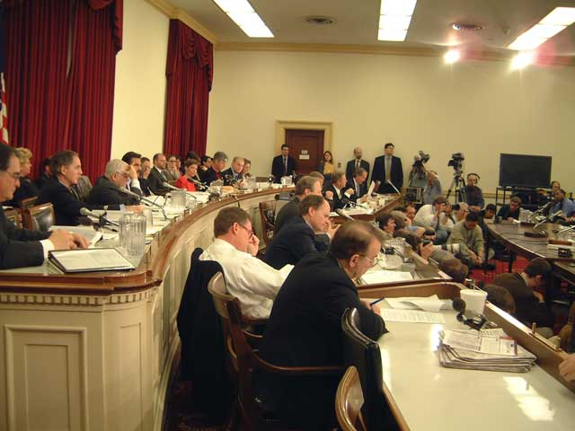 Subcommittee on Oversight and Investigations of the Committee on Energy and Commerce House of Representatives (107th Congress) hearing on January 24, 2002 on (Enron)